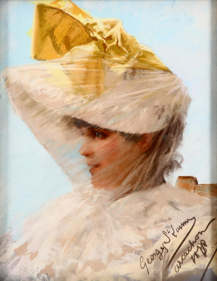 Female Figure - Mrs. Maria Adelaide Coelho da Cunha (1890), by Georges Saint-Lanne (1848-1912).